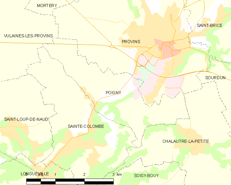 Map of French municipality Poigny